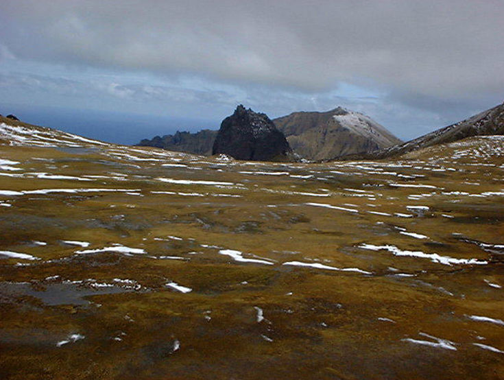 View from the top of Gough Island.